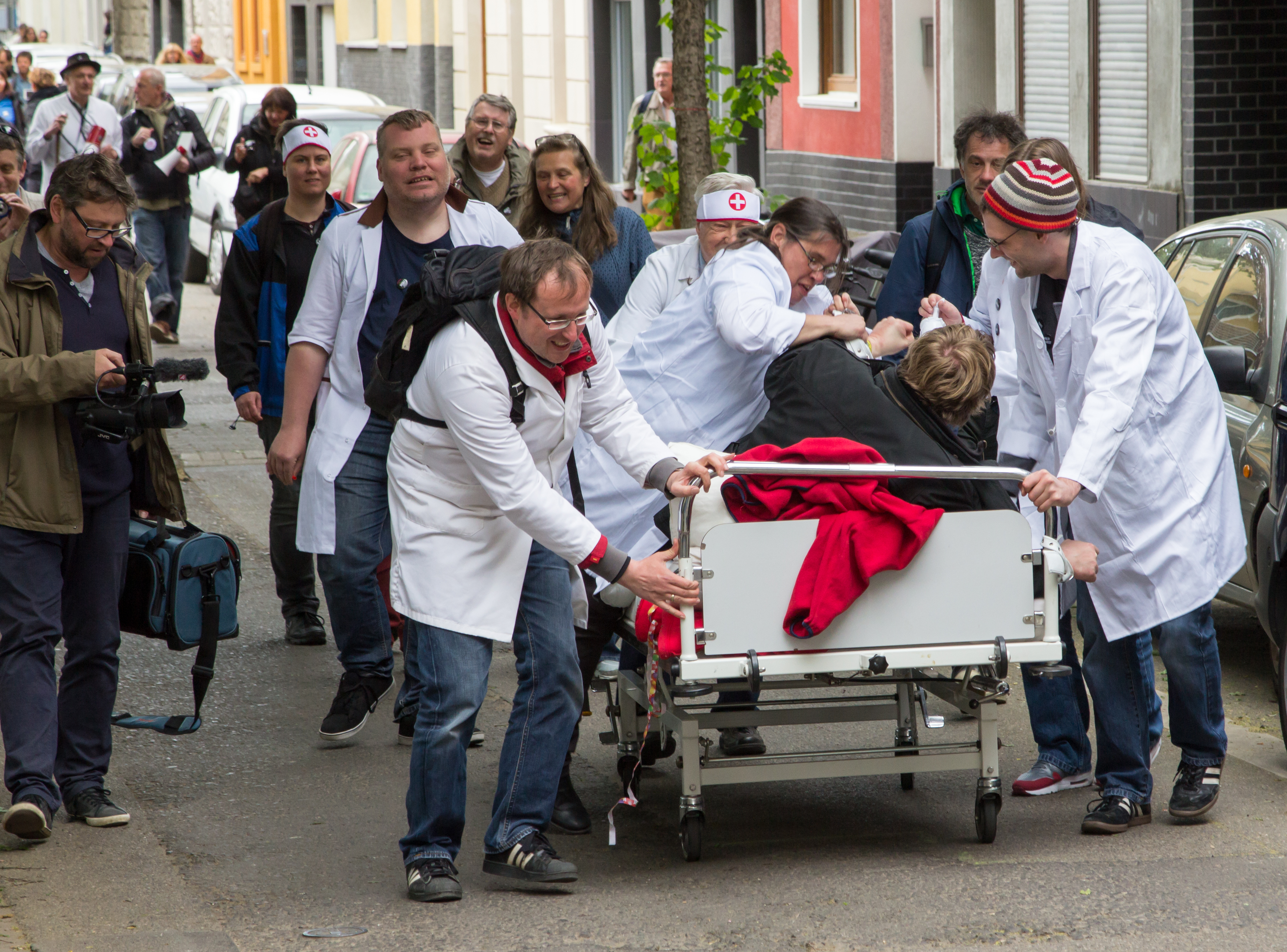 Bed Push at Mad Pride Parade in Cologne, 2016